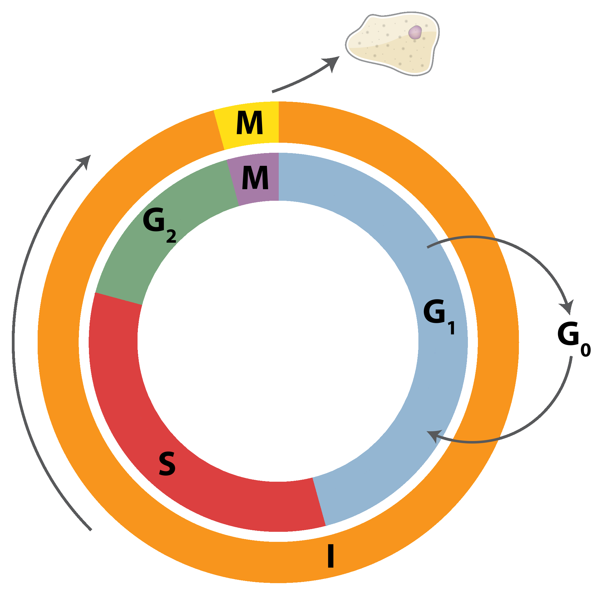 By Richard Wheeler (Zephyris) 2006. Schematic representation of the cell cycle. Cytokinesis forms rapidly in the process of the cell cycle.